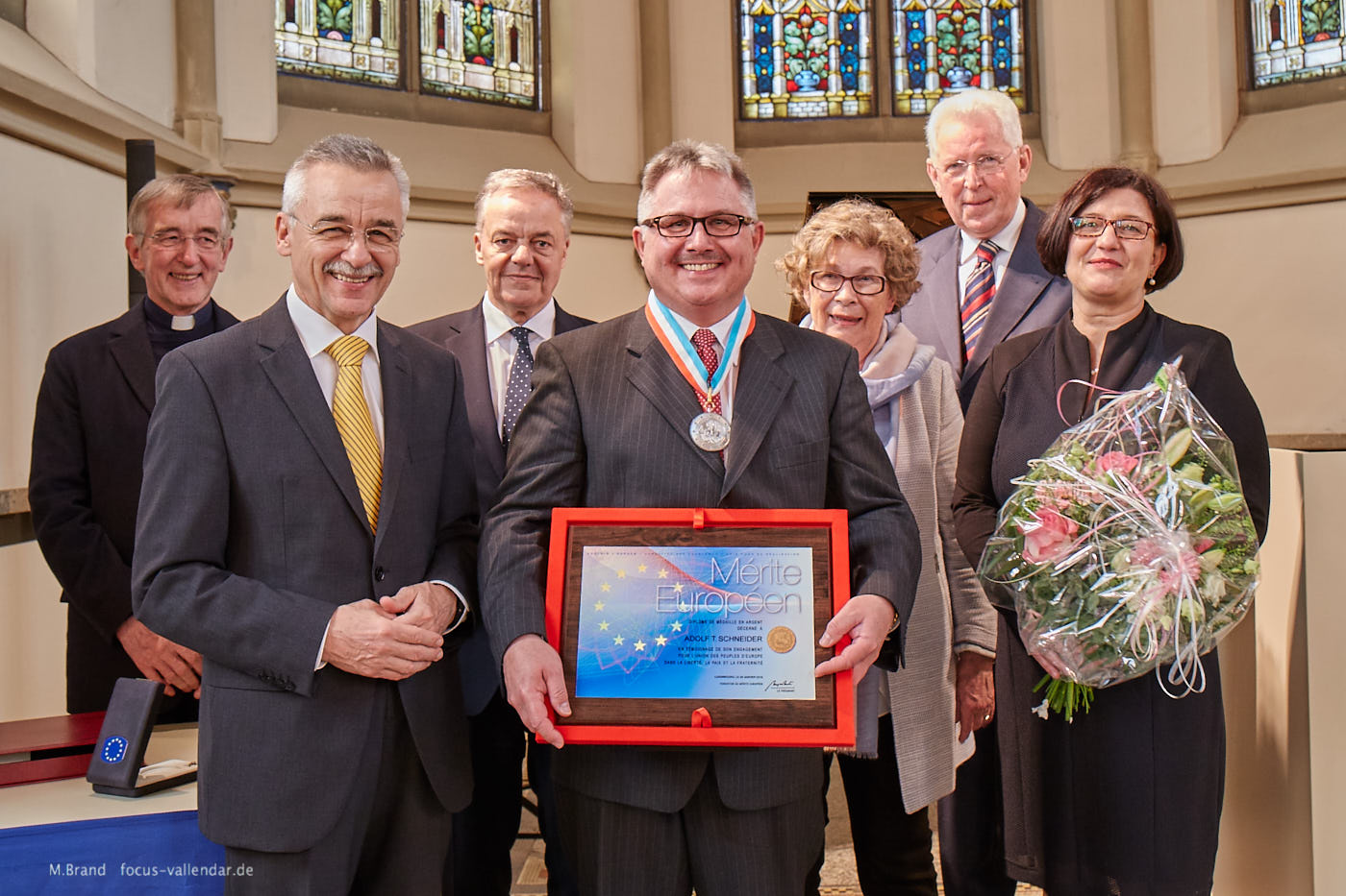 Awarded Mérite Européen to Adolf T. Schneider in 2018.